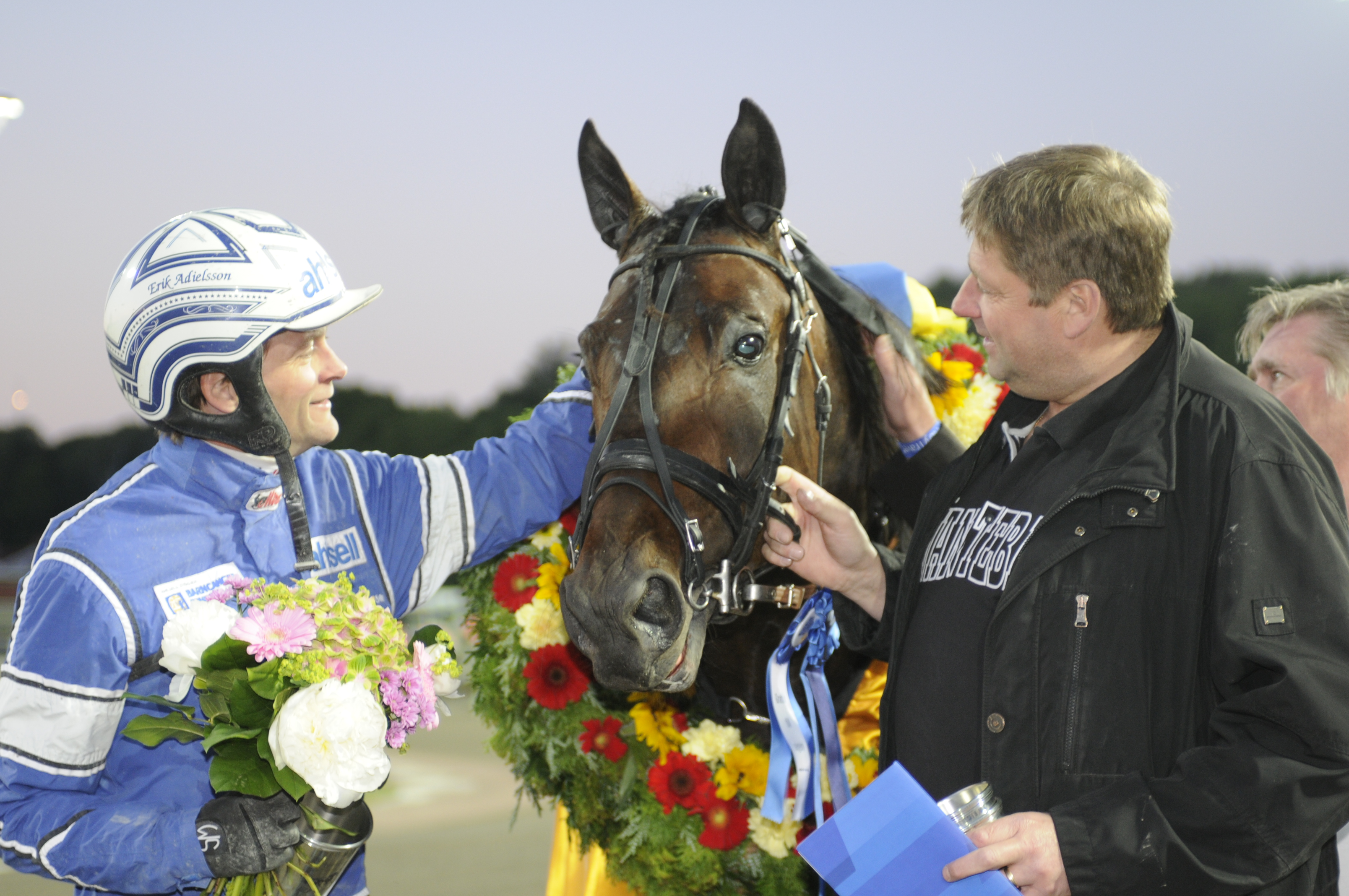 Poochai, Erik Adielsson & Svante Båth after winning Konung Gustaf V:s Pokal at Åbytravet, 2014.